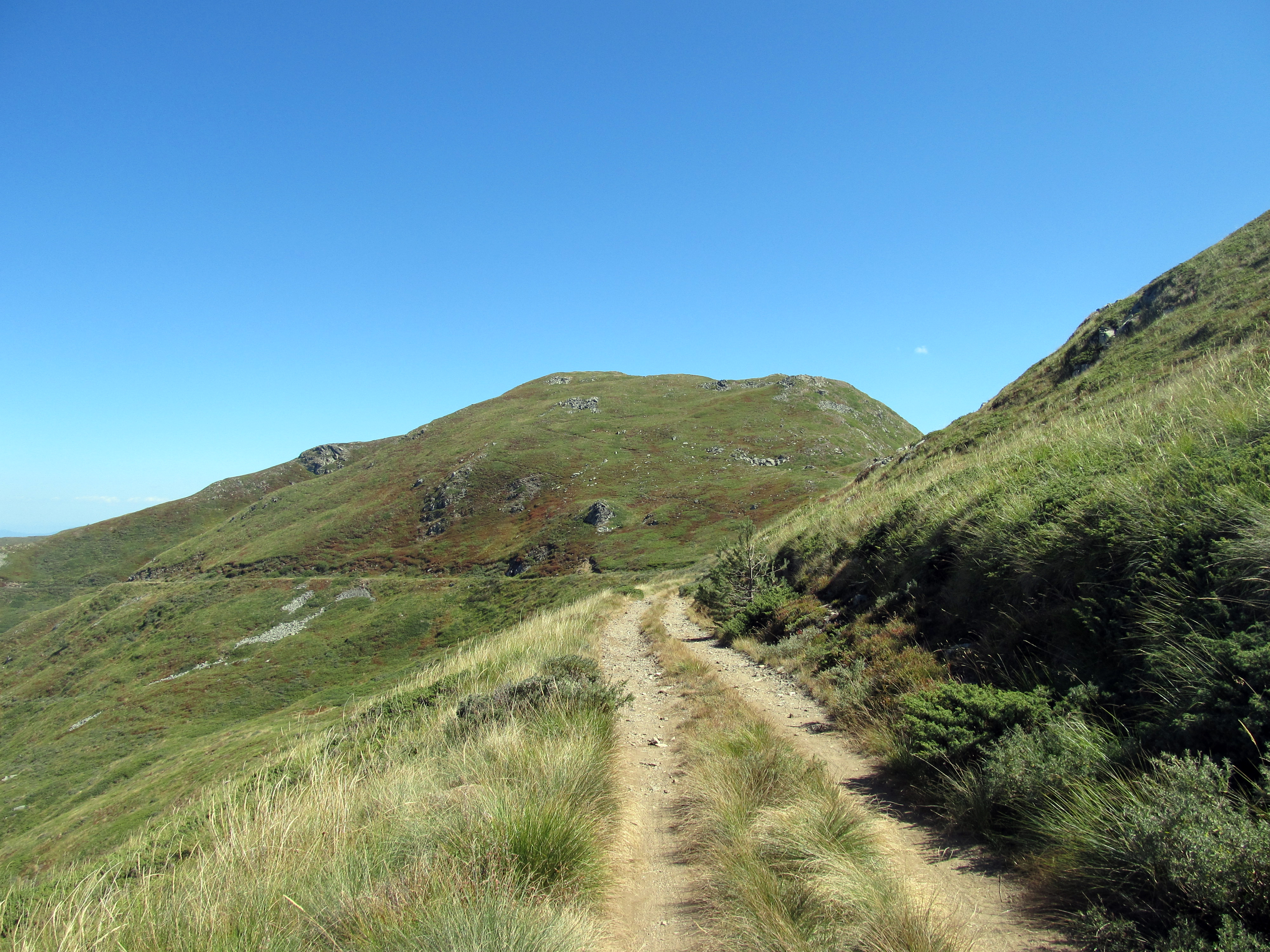 Debelo bardo - a summit in Belasitsa mountain, Bulgaria